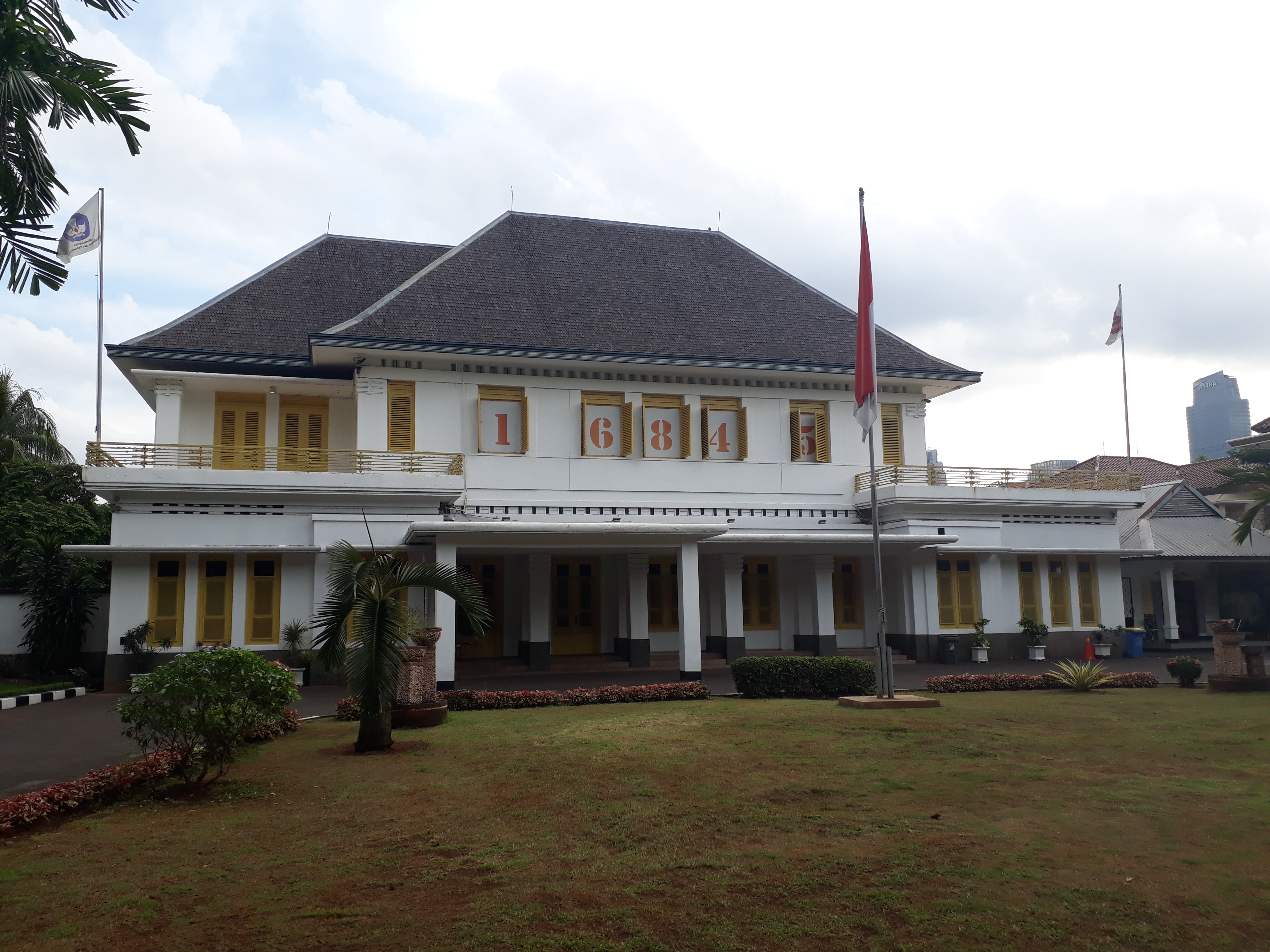 The former residence of Rear-Admiral Tadashi Maeda, where the Indonesian Proclamation of Independence was written. It is now the Formulation of Proclamation Text Museum at Jl. Imam Bonjol No. 1, Jakarta